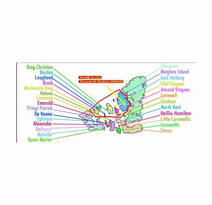 Map of Sverdrup islands